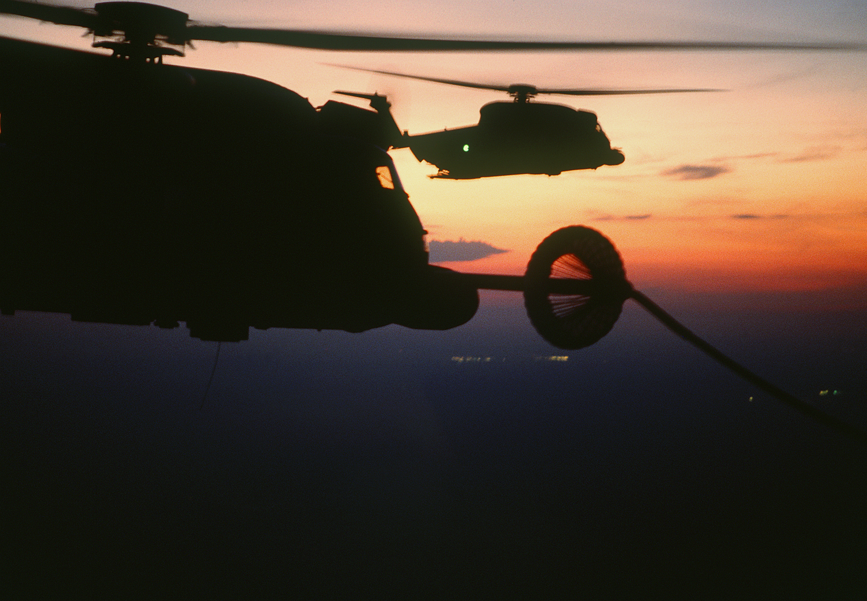 An MH-53J Pave Low III helicopter of the 20th Special Operations Squadron is refueled just after sunset during Jaguar Bite '89, a joint Army-Air Force exercise conducted by the U.S. Special Operations Command.